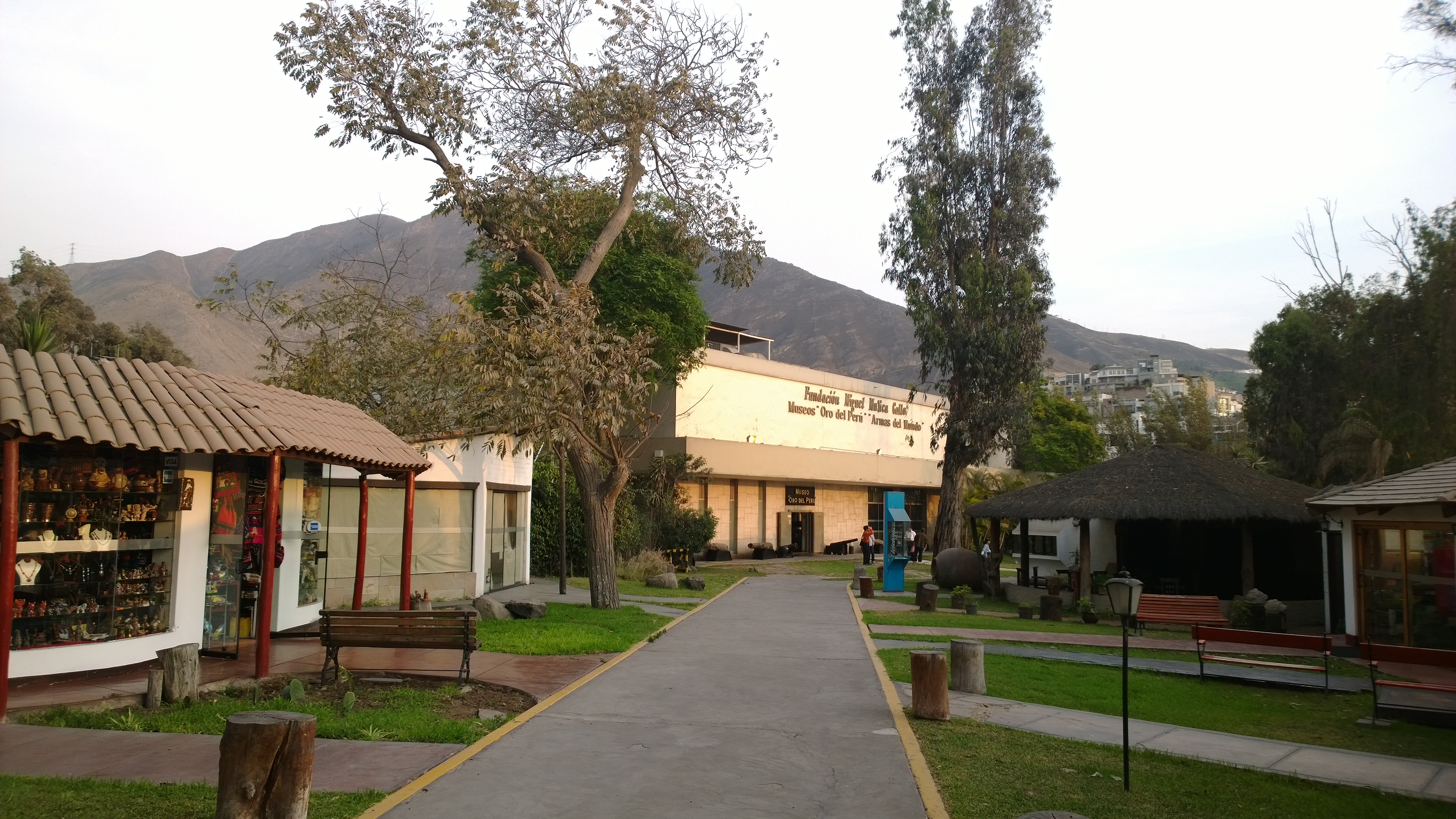 Museo Oro del Peru.